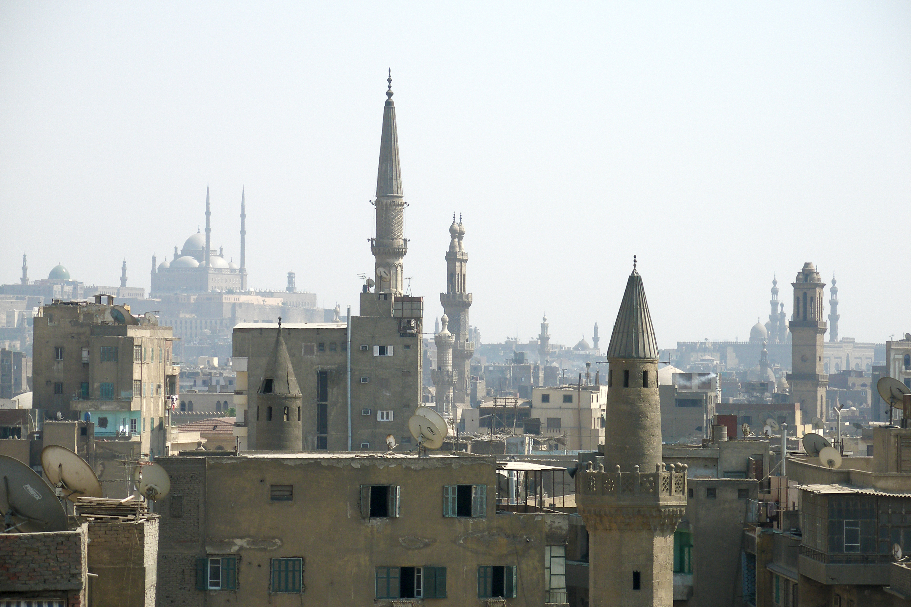 Islamic Cairo is a part of central Cairo around the old walled city of Cairo with hundreds of mosques, tombs, madrasas, hammams, mansions and fortifications dating from the Islamic era. It is one of the world's oldest Islamic cities reaching its golden age in the 14th century.